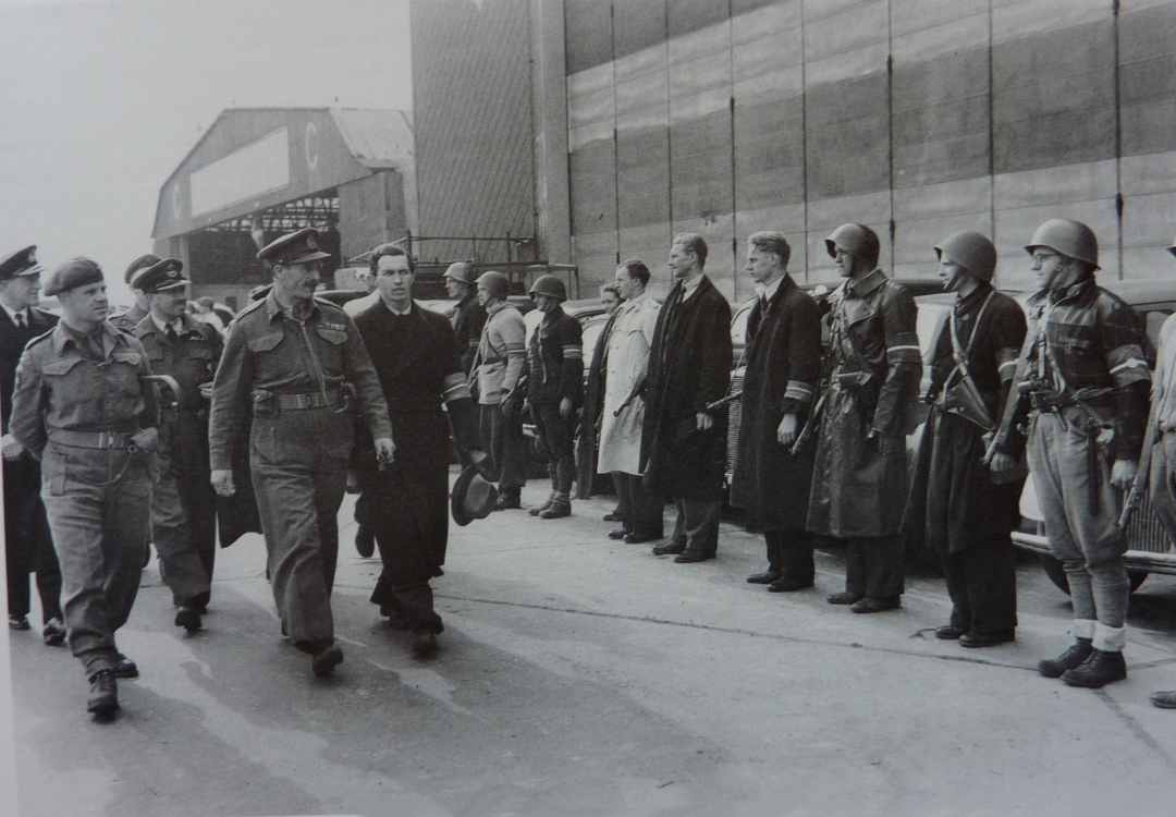 Ole Lippmann (with a soft hat in his left hand) receives the British general Dewing, from the Allied headquarters, in front of an honorary company of resistance fighters on May 5th 1945. At this moment, the idea behind The Foreign Policy Society was born. It was established the following year.